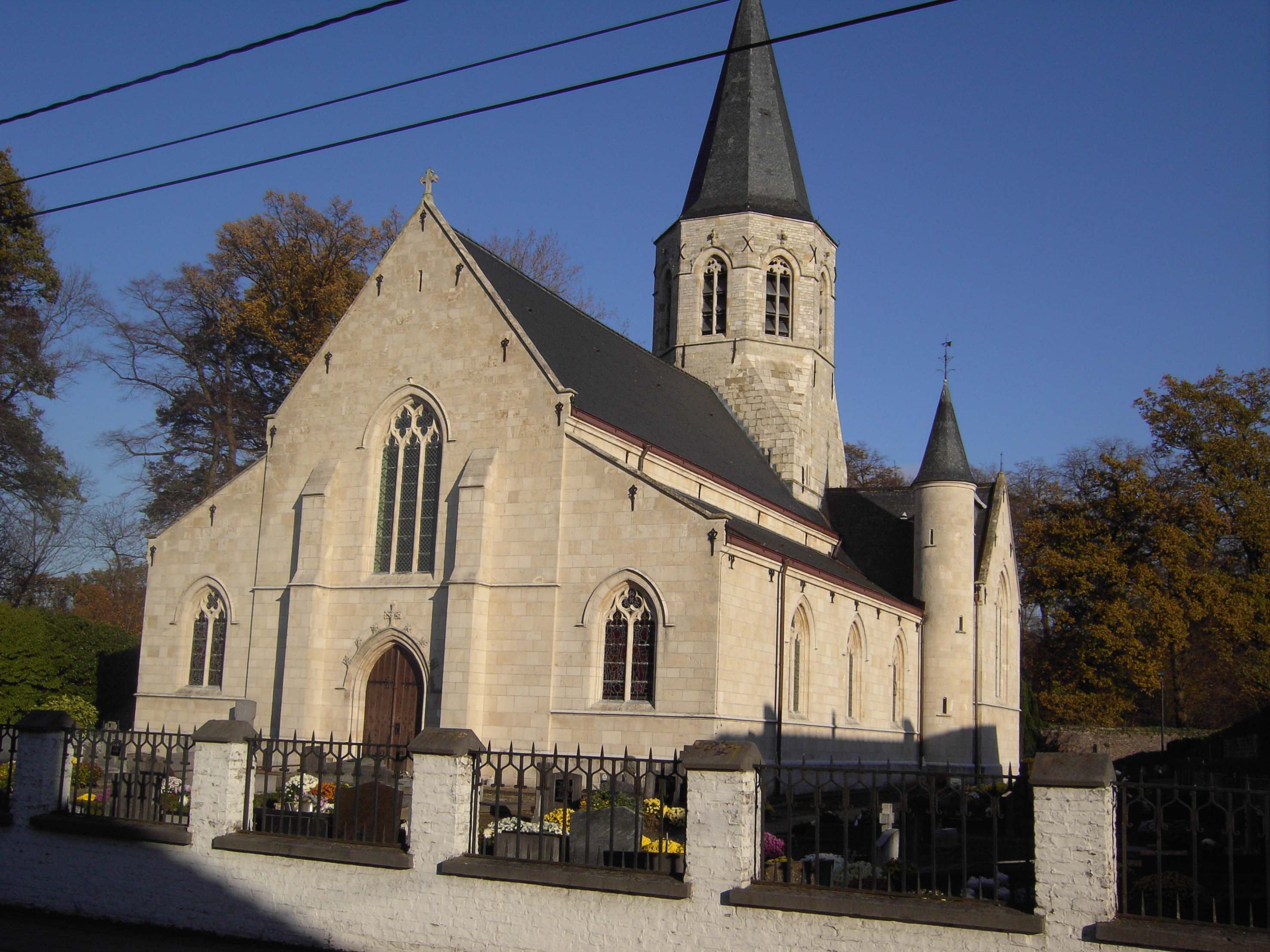 Church of Saint Martin in Vurste. Vurste, Gavere, East Flanders, Belgium